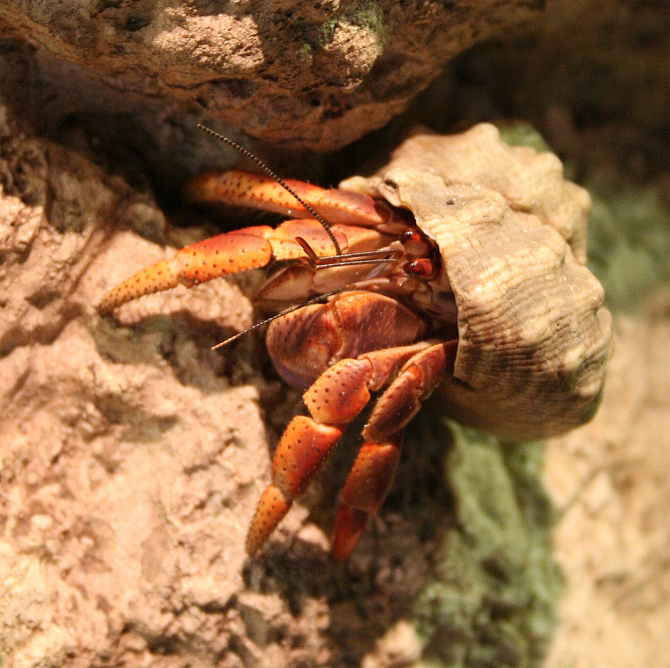 Caribbean hermit crab (coenobita clypeatus) Coenobita clypeatus, photo prise à l'Aquarium de Guadeloupe